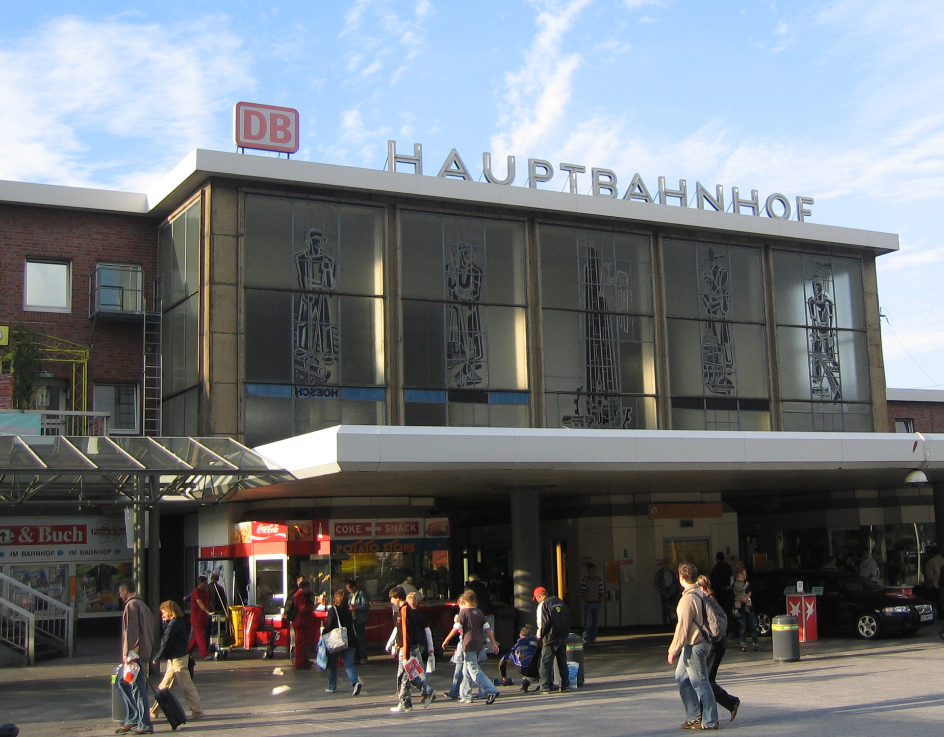 Dortmund, Germany central station, station hall